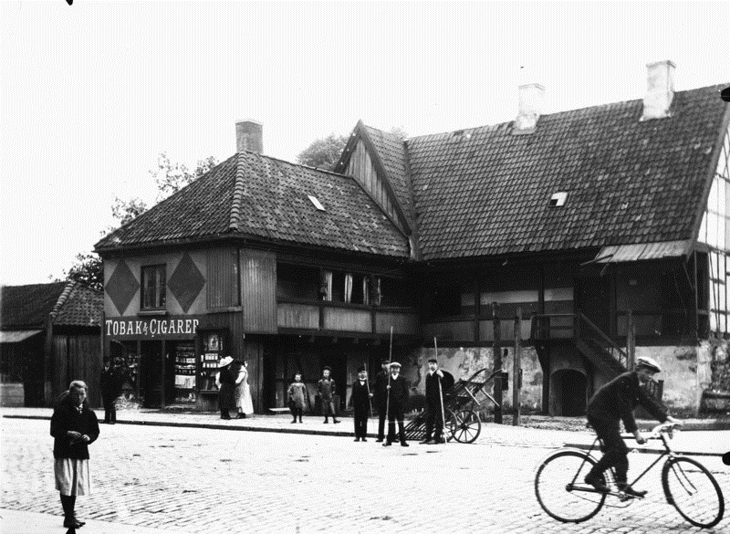 Meyer Manor, (Meyergården in Norwegian) in Oslo, Norway. Wooden building from the 18th century in the former Lille Strandgt. number 4. Bought by Thorvald Meyer`s grandfather Peter Meyer (1745-1801) in 1777. The manor laid across the street from Paléet, where Christian Frederiks plass at Østbanen is today. Later there was a small shop in the building. It was demolished early in the 20th century.